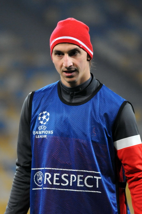 Zlatan Ibrahimovic